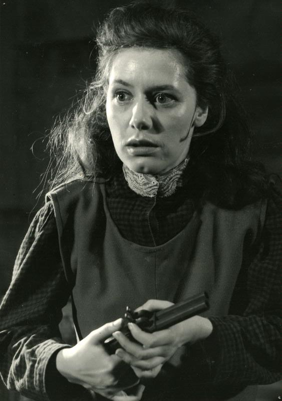 The Swedish actor Ann-Mari Wiman (1921–2016) as Hedvig in Henrik Ibsen's "The Wild Duck", Helsingborg City Theatre 1949/50.